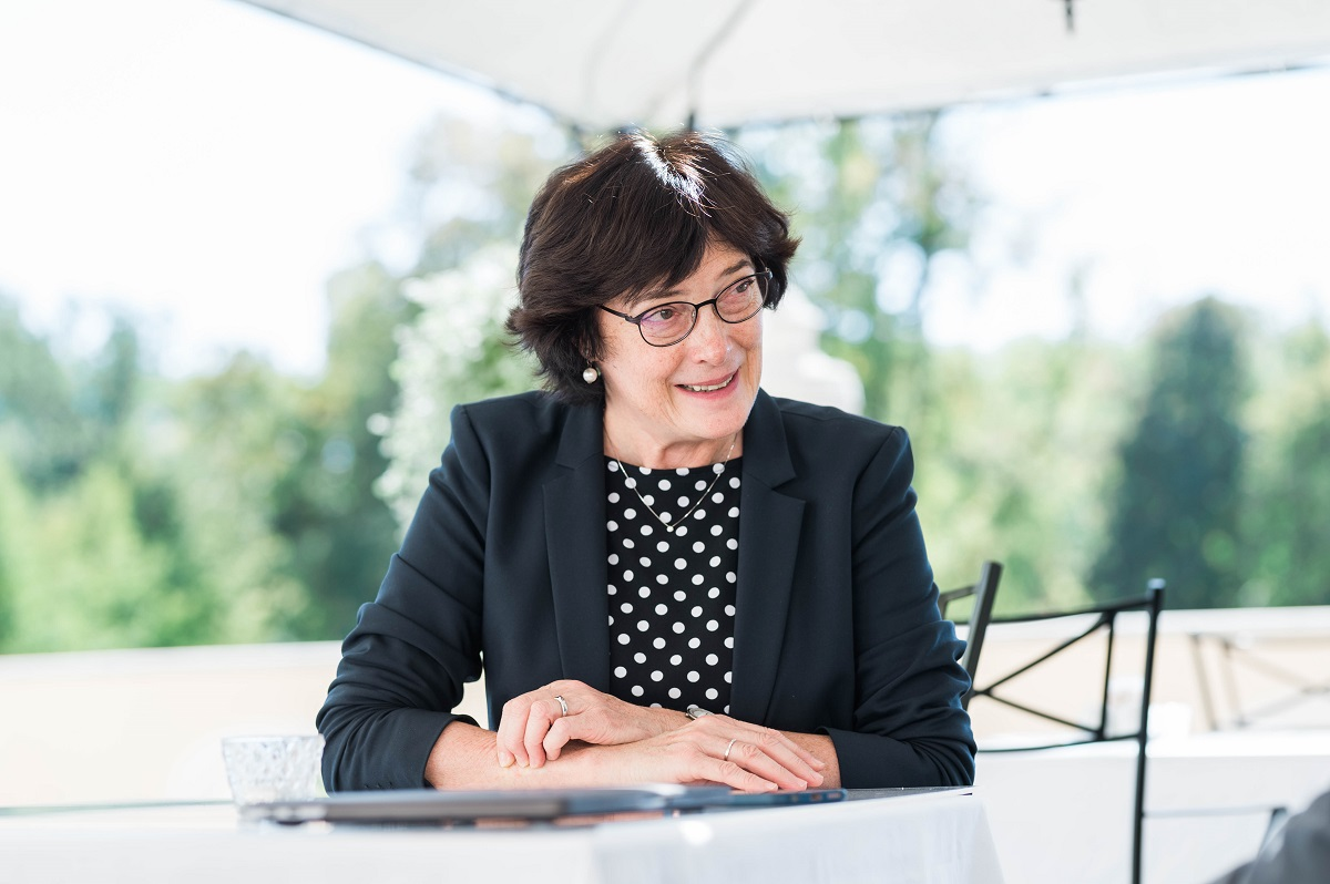 Eva Zažímalová (born 18 February 1955) is a Czech biochemist and since March 2017 the president of the Czech Academy of Sciences.